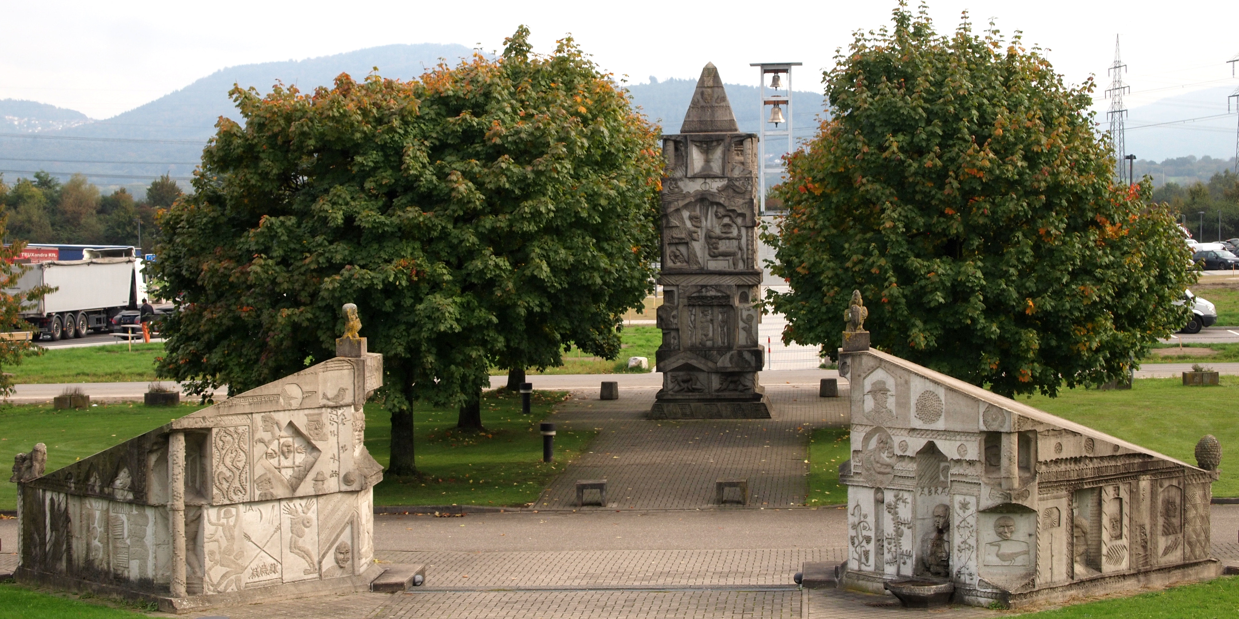 Road church Baden-Baden, outside structures, seen from the main door: Abraham's gate, acer avenue, Noah's tower, bell tower